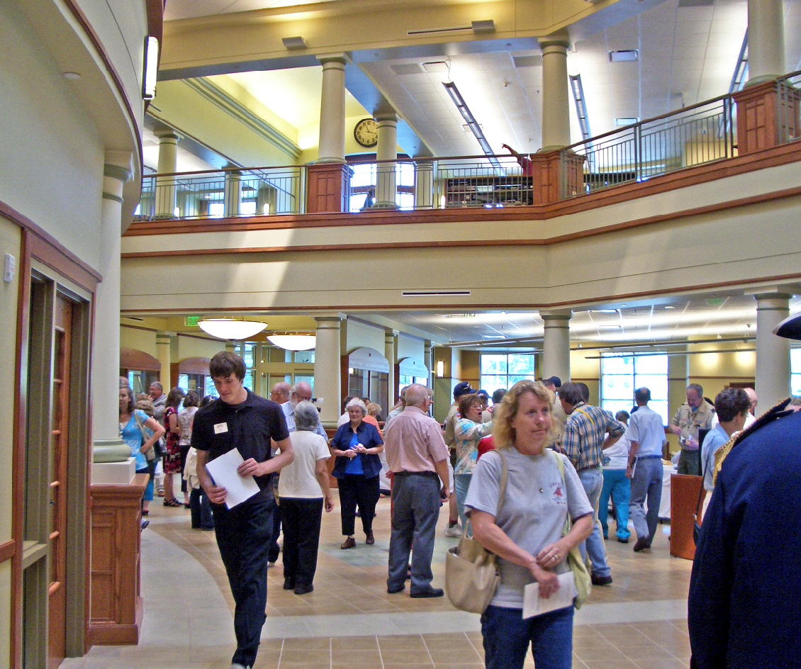 Midwest Genealogy Center, Independence, Missouri, main floor atrium